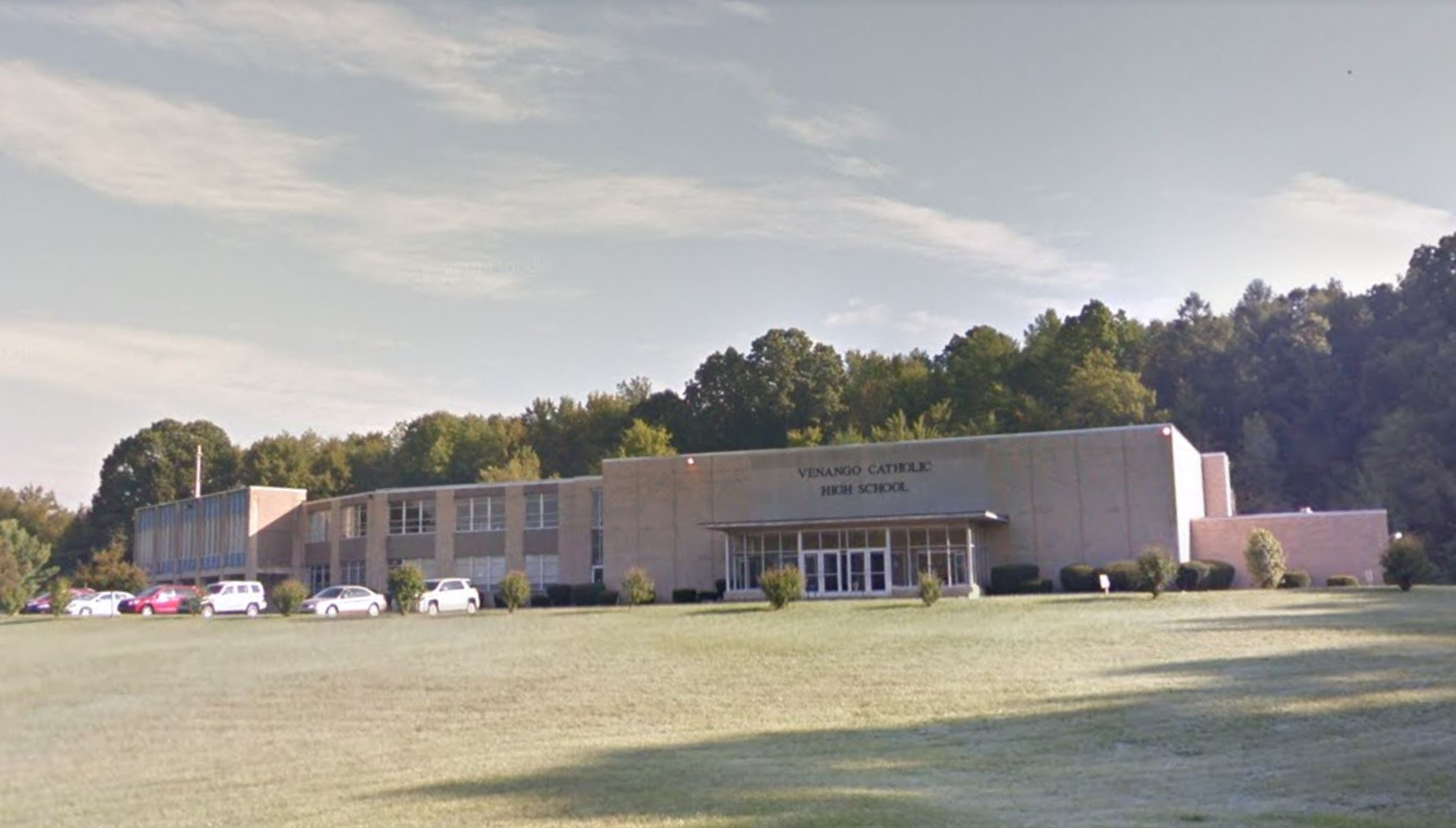 VCHS from the exterior